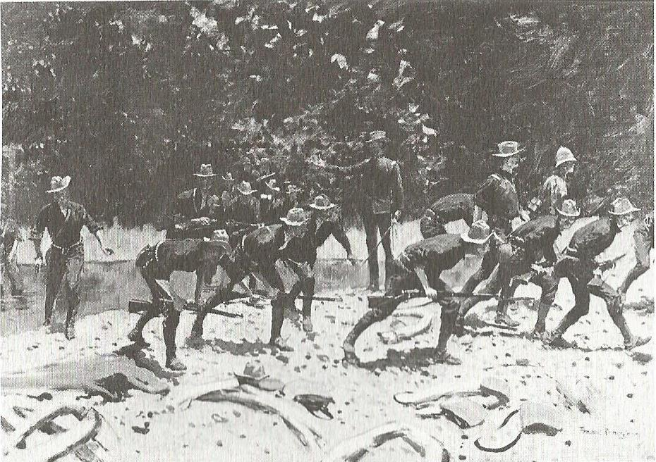 Black and white print of an oil painting by Frederic Remington is entitled, "At the Bloody Ford of the San Juan".